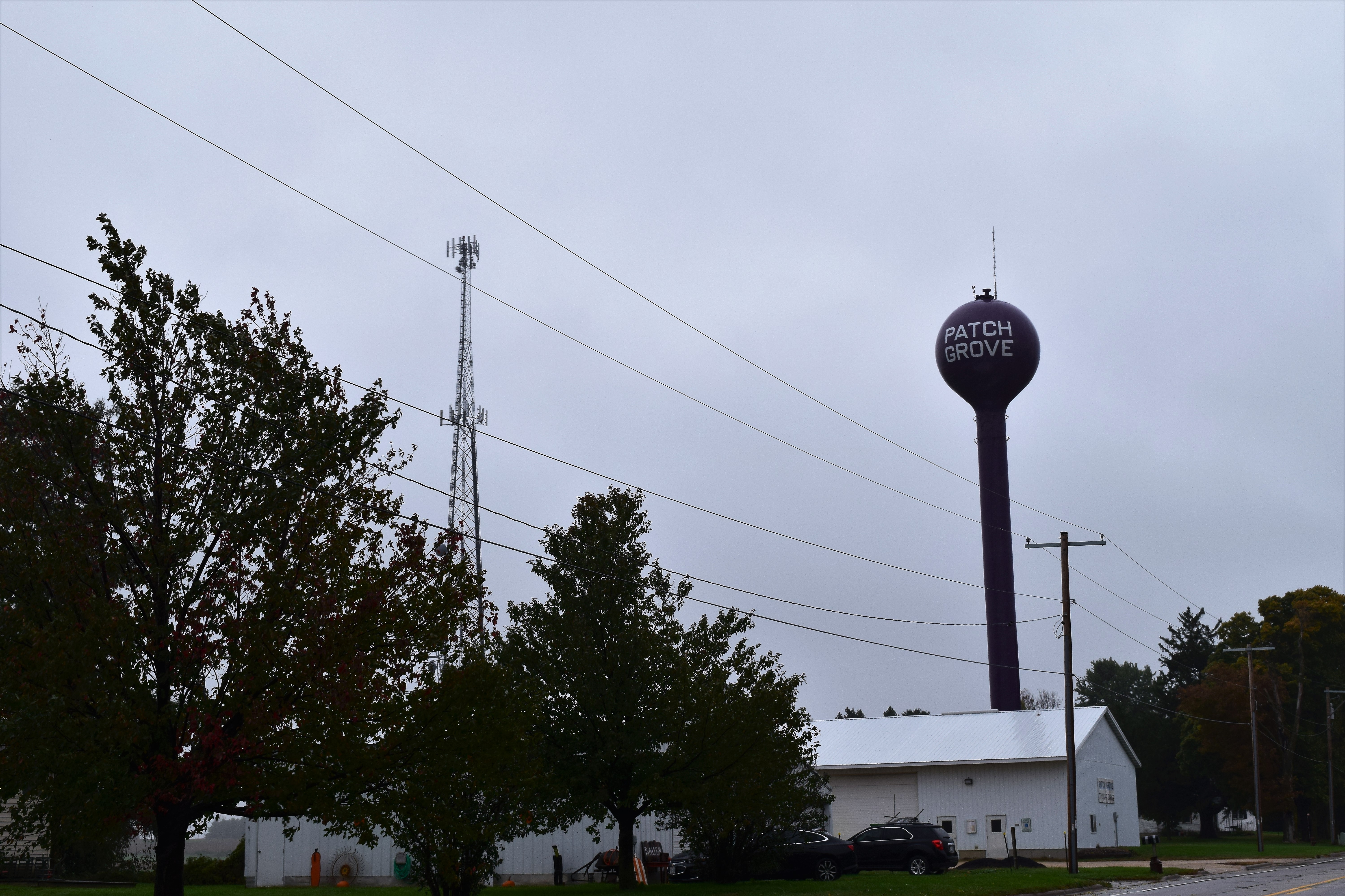 Water tower in Patch Grove, Wisconsin.